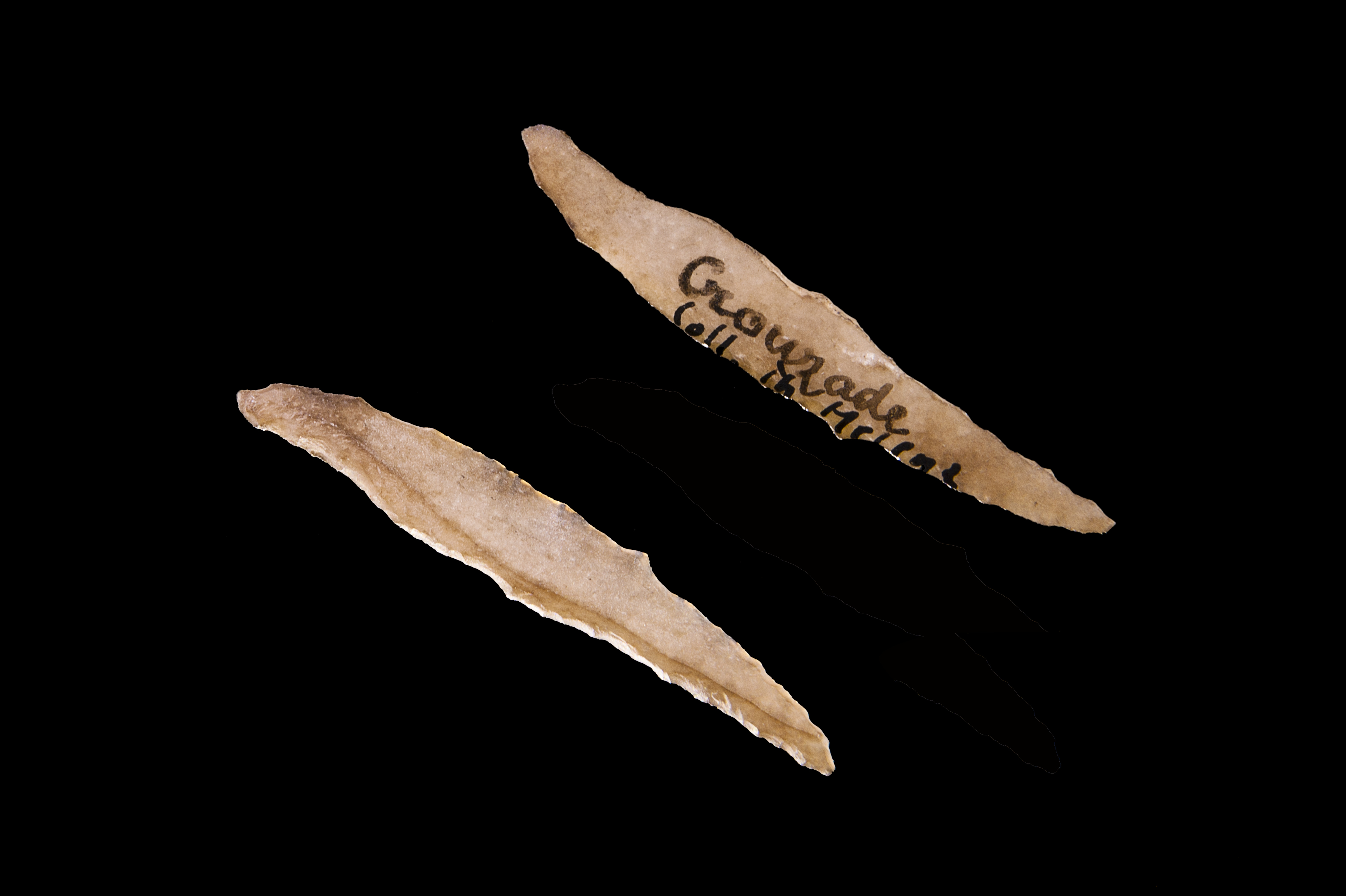 Curved-backed point - Different views of the same specimen